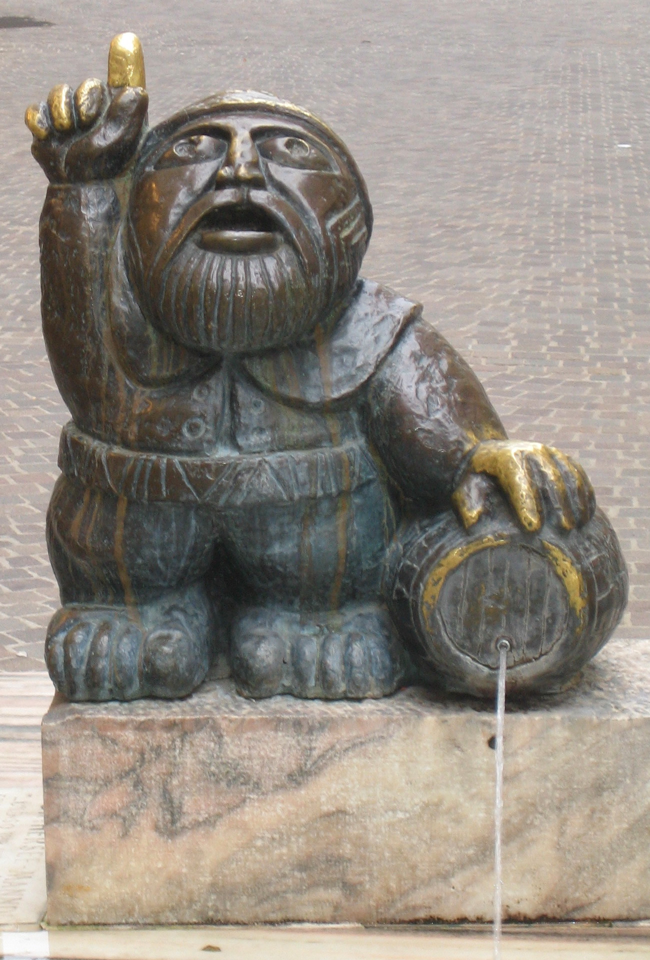 "Wörthersee-Manndl" ("Wörthersee midget") in Klagenfurt, Carinthia by Heinz Goll